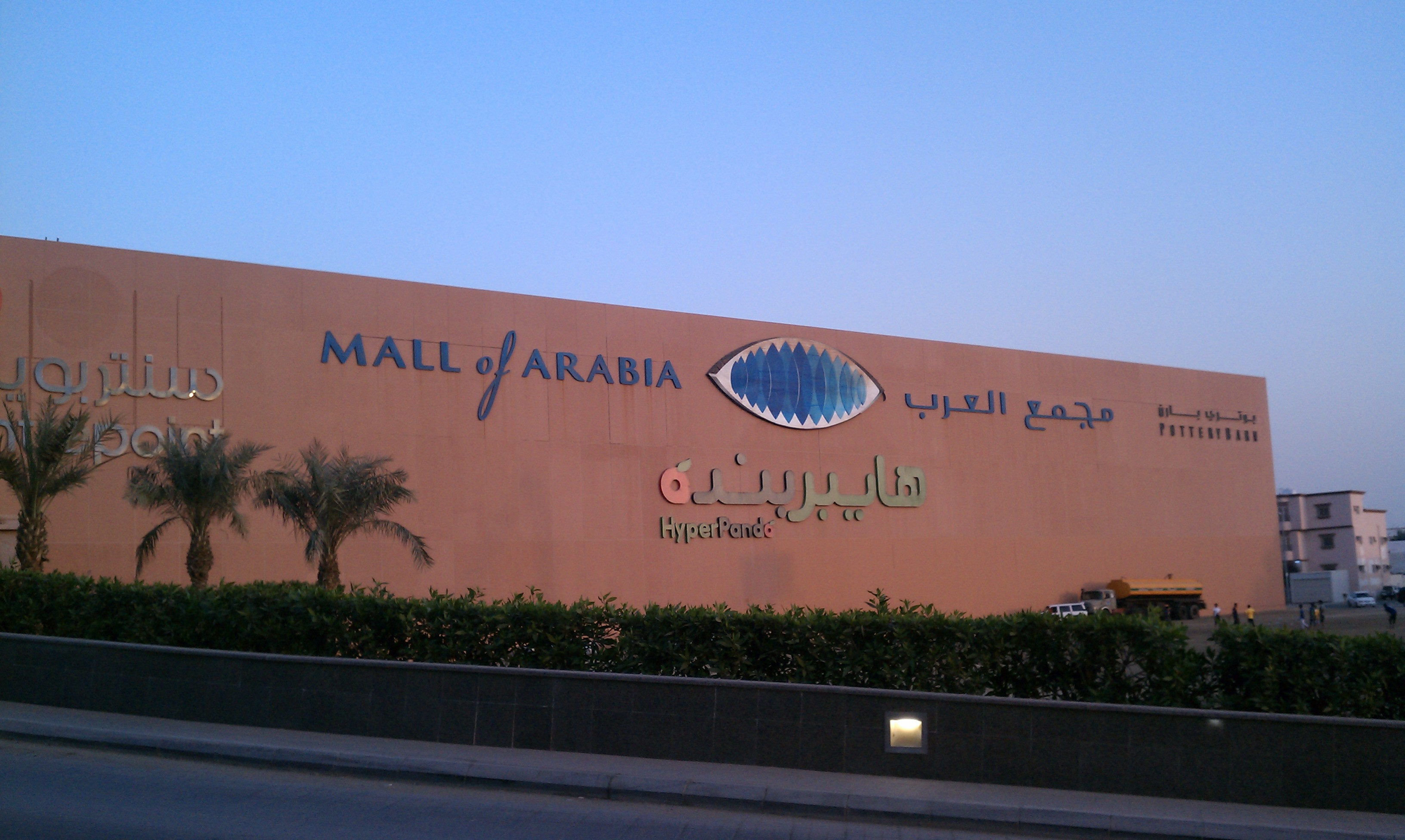 Mall of Arabia in Jeddah